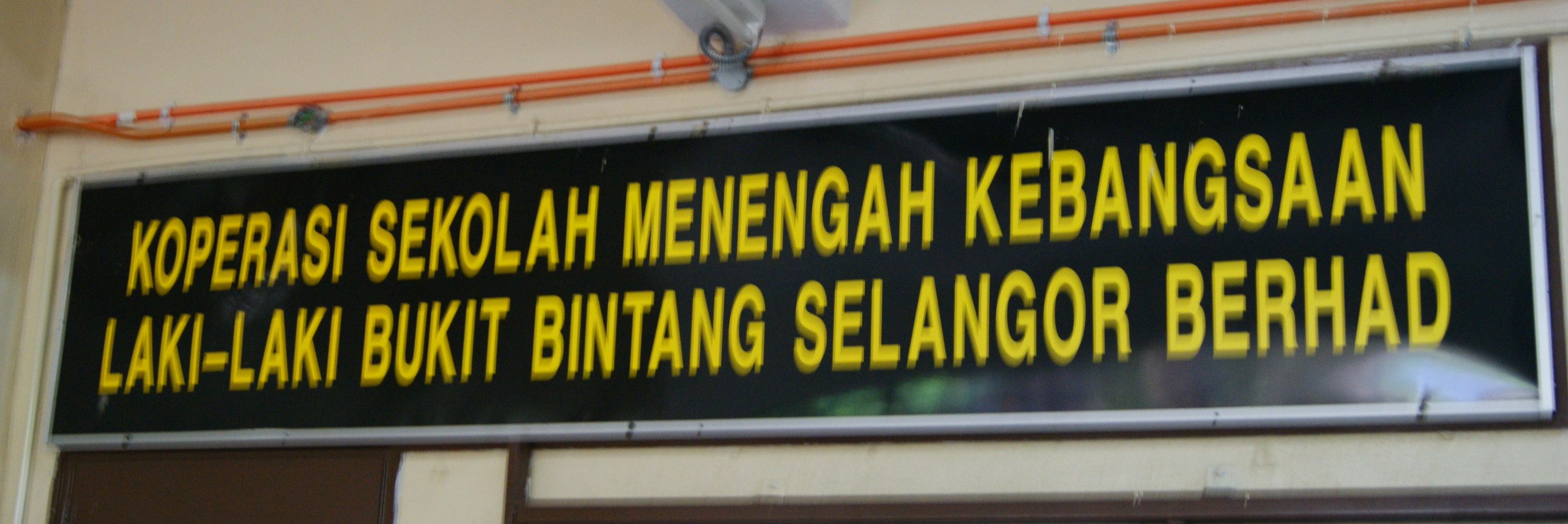 Cooperative 1 - Signboard